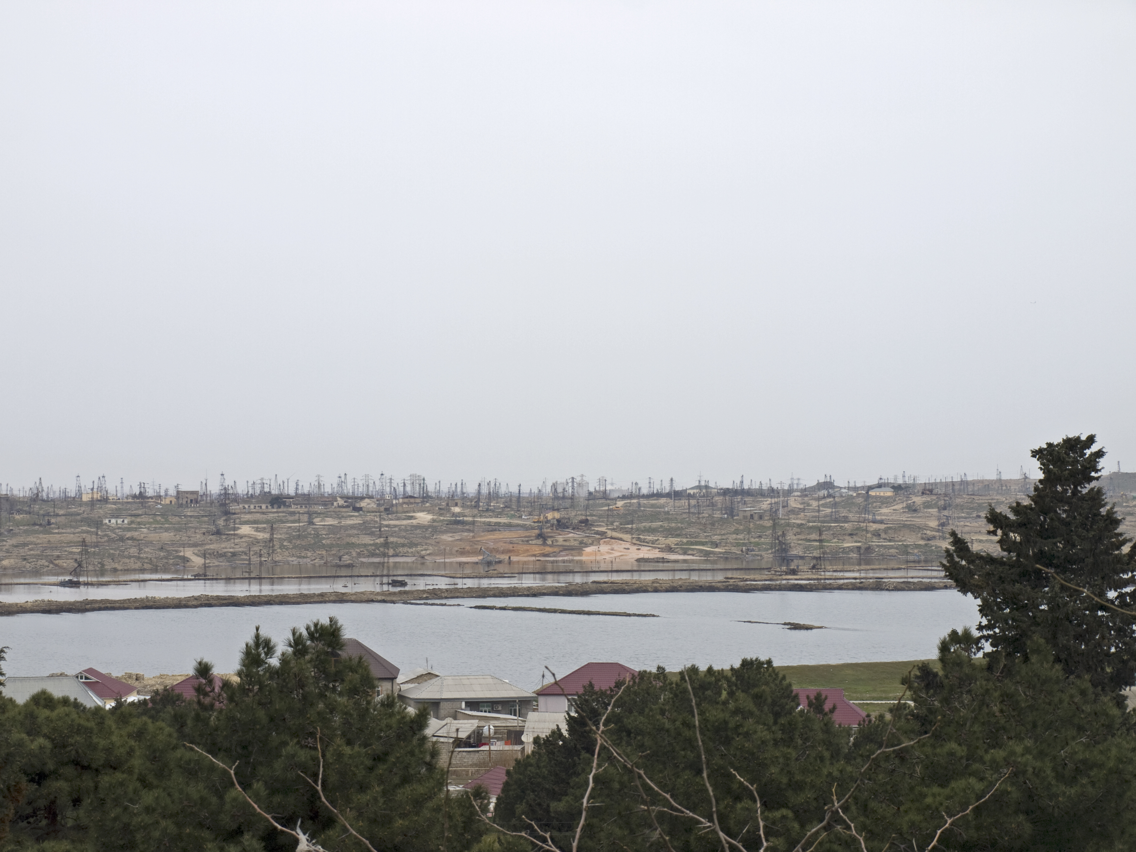 Oil fields in Sabuncu, Baku